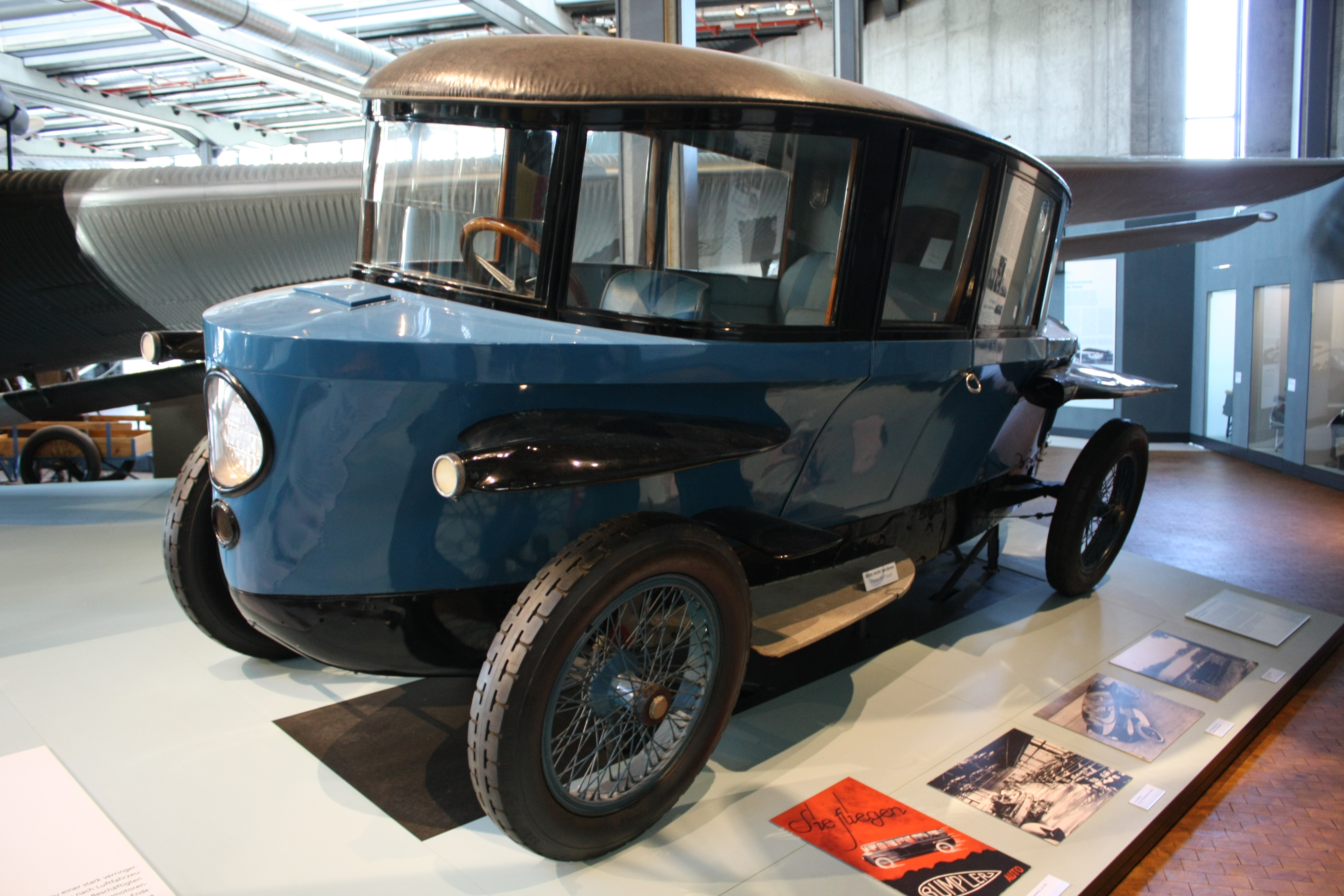 1923 Rumpler Tropfenwagen at the Deutsches Technikmuseum Berlin